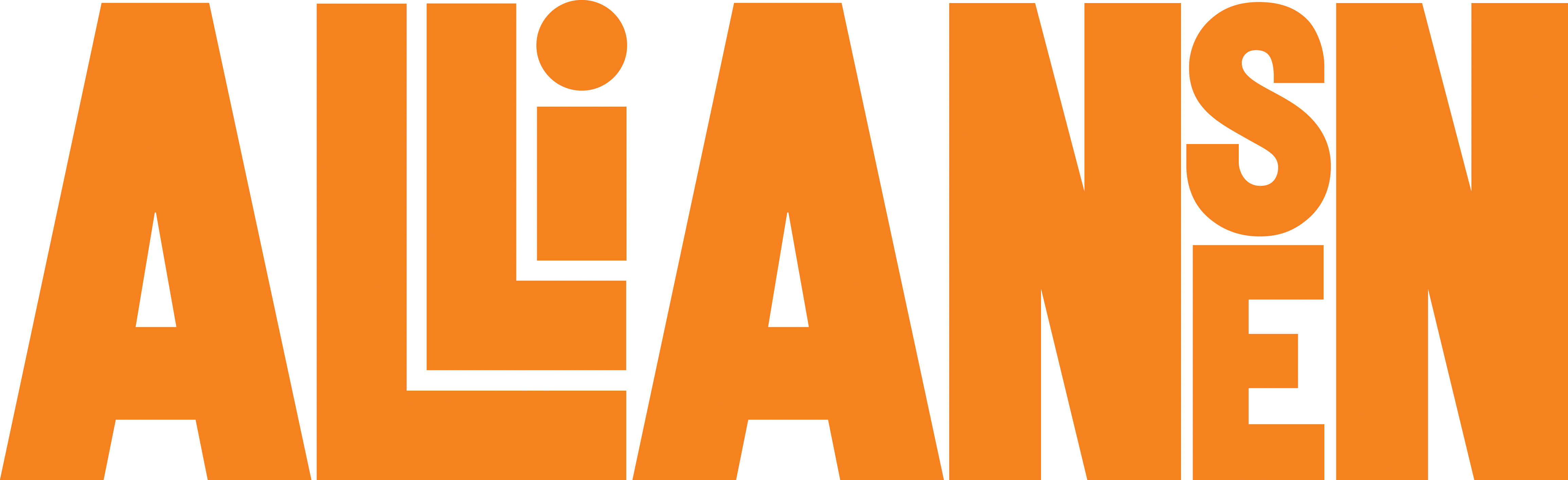 Logo of The Alliance (Sweden)